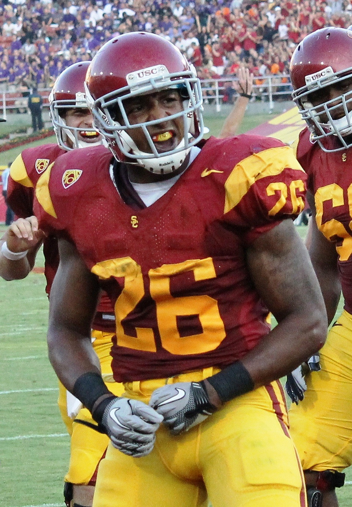 LOS ANGELES, CA - OCTOBER 02: Running back Marc Tyler of the USC Trojans celebrates a second quarter touchdown against the Washington Huskies at the Los Angeles Memorial Coliseum on October 2, 2010 in Los Angeles, California. Washington won 32-31. (Photo by Shotgun Spratling/Neon Tommy)